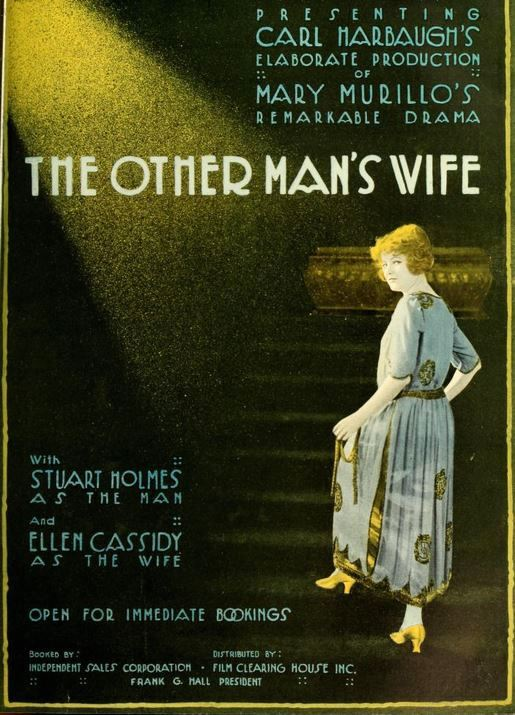 Ad for the American drama film The Other Man's Wife (1919) with Ellen Cassidy, in the color insert after page 1130 of the May 24, 1919 Moving Picture World.